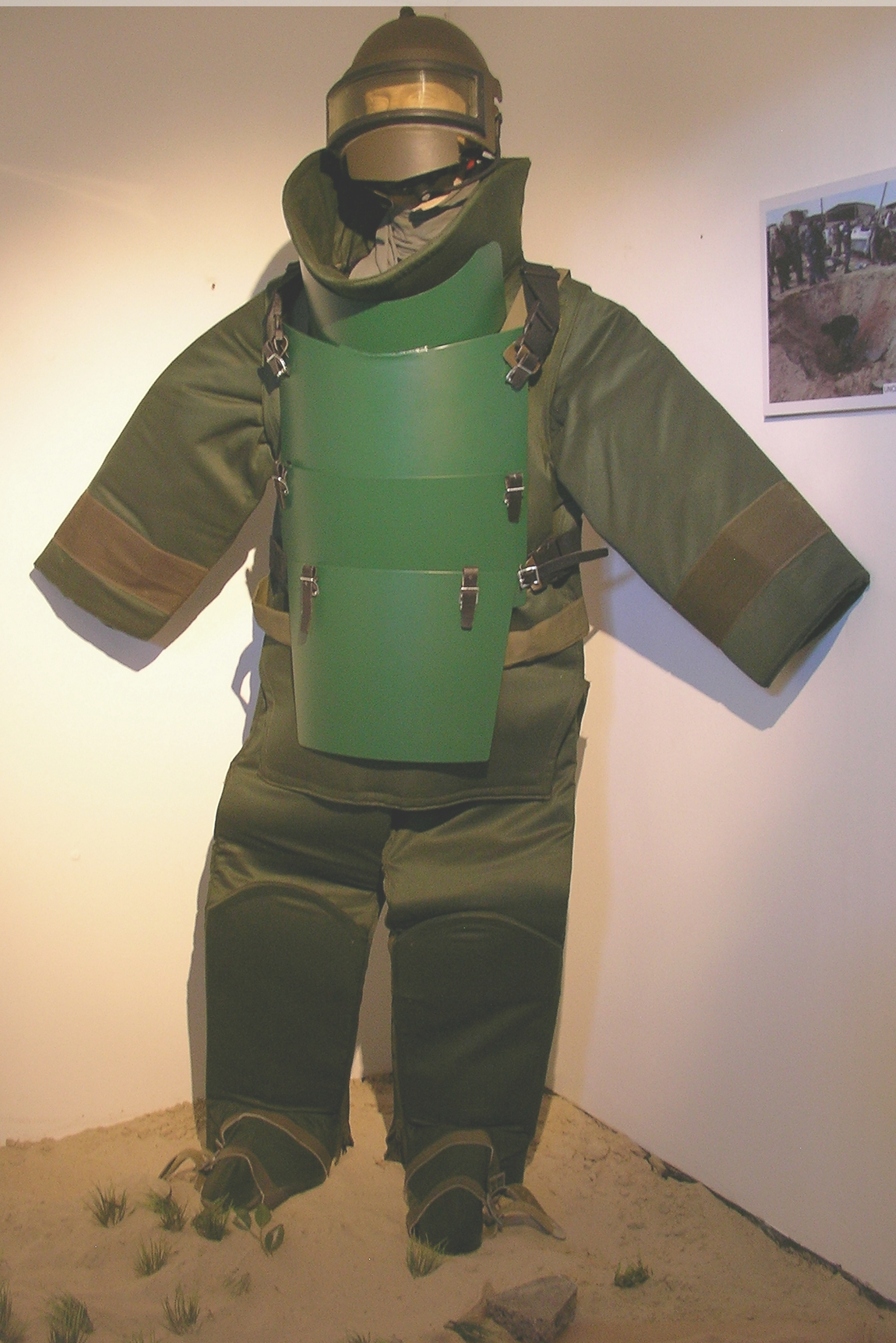 Protective clothing for removing mines